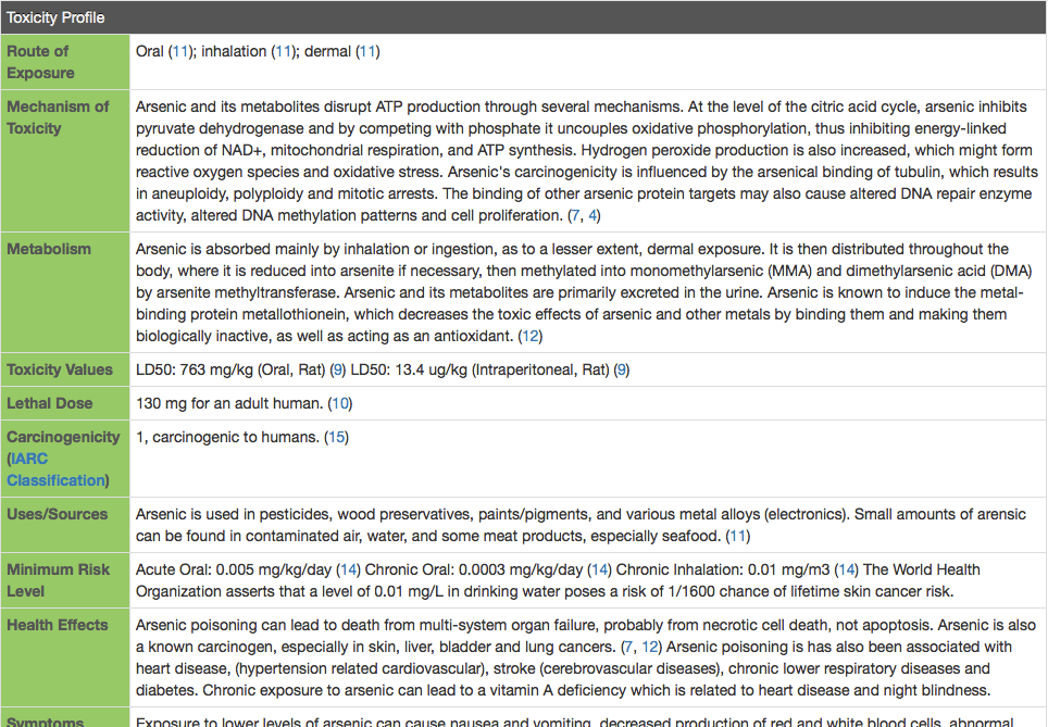 Screenshot of arsenic toxicity information from the T3DB database